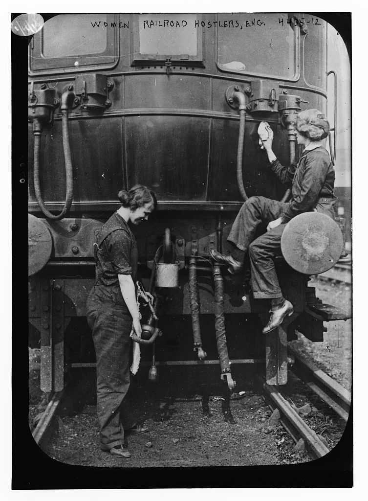 Bain News Service,, publisher. Women railroad hostlers, Eng. [i.e. England] [between ca. 1915 and ca. 1920] 1 negative : glass ; 5 x 7 in. or smaller. Notes: Title from data provided by the Bain News Service on the negative. Forms part of: George Grantham Bain Collection (Library of Congress). Format: Glass negatives. Repository: Library of Congress, Prints and Photographs Division, Washington, D.C. 20540 USA, General information about the Bain Collection is available at Higher resolution image is available (Persistent URL): Call Number: LC-B2- 4435-12